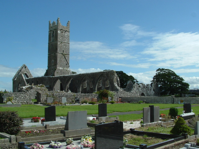 The Claregalway Friary, as viewed from the modern cemetery to its north. Taken by the submitter in 2004. Dppowell 04:14, 22 November 2006 (UTC)